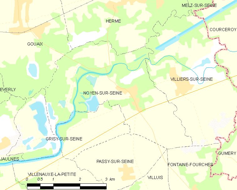 Map of French municipality Noyen-sur-Seine